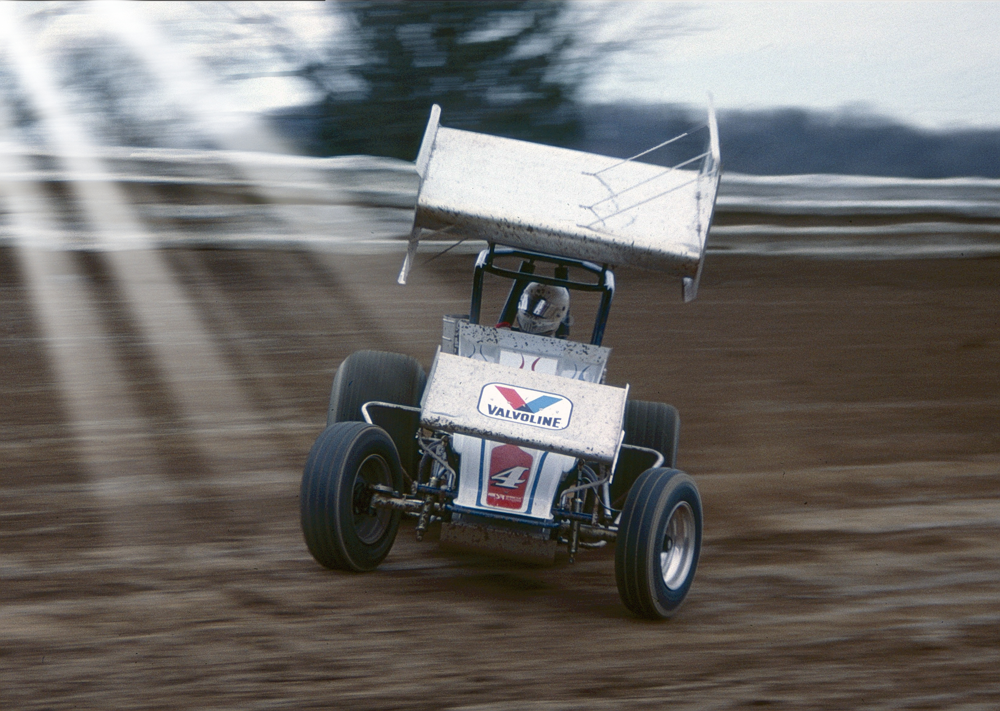 Rich Vogler at Port Royal Speedway in March 1984